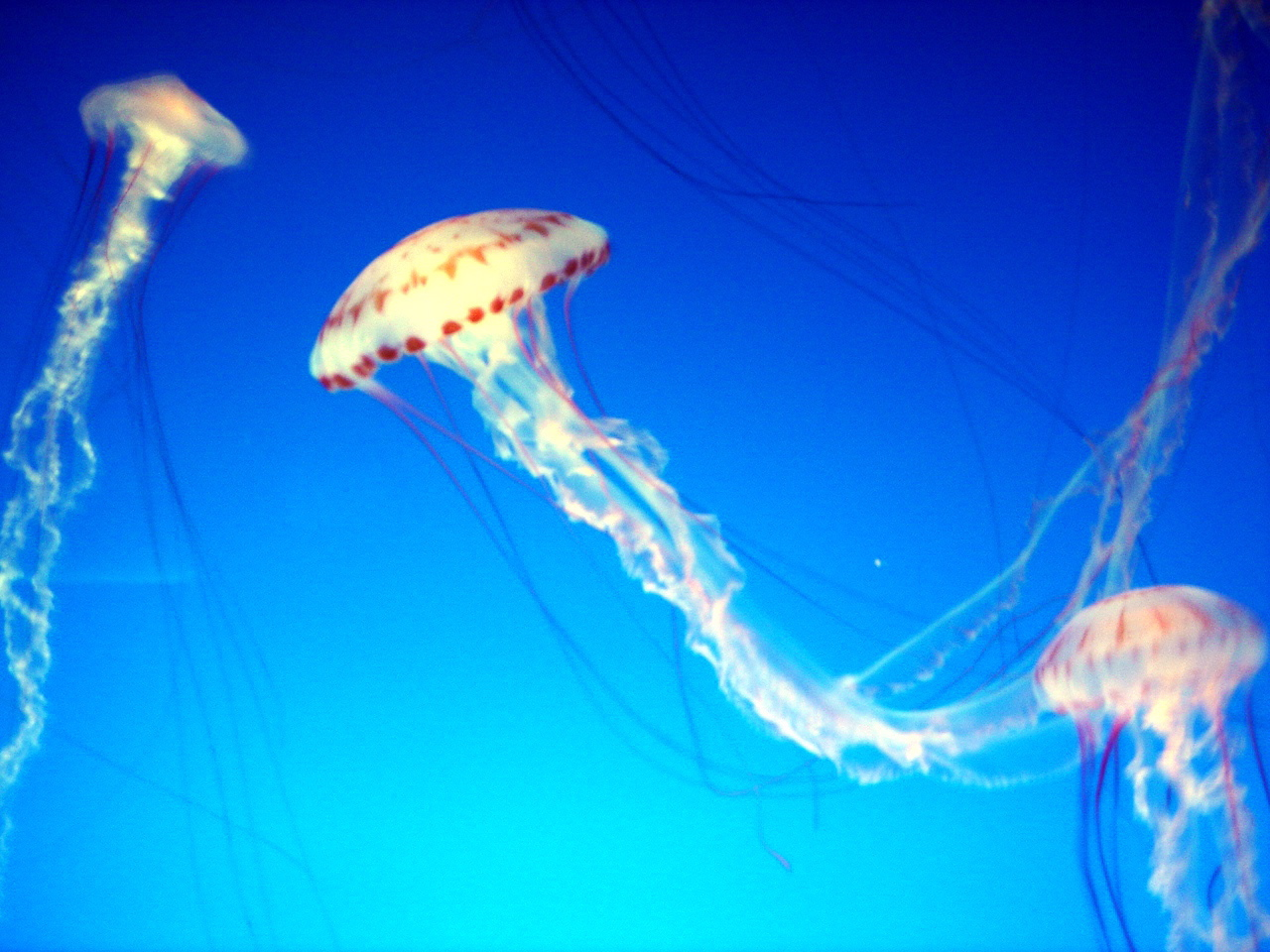 Sea nettles (up close) at Monterey Aquarium's Outer Bay Exhibit